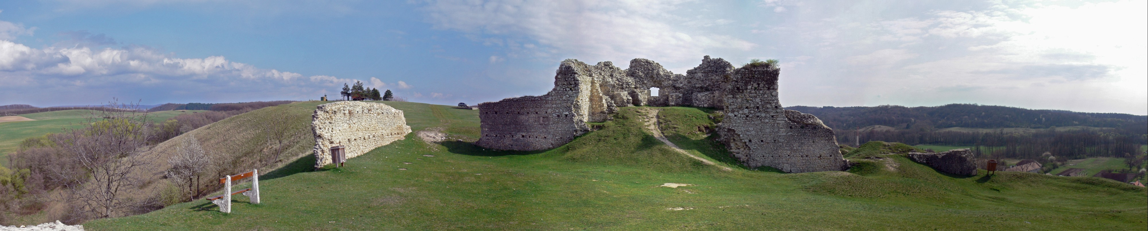 Ruins of the outer court of Szarvaskő castle at Döbrönte